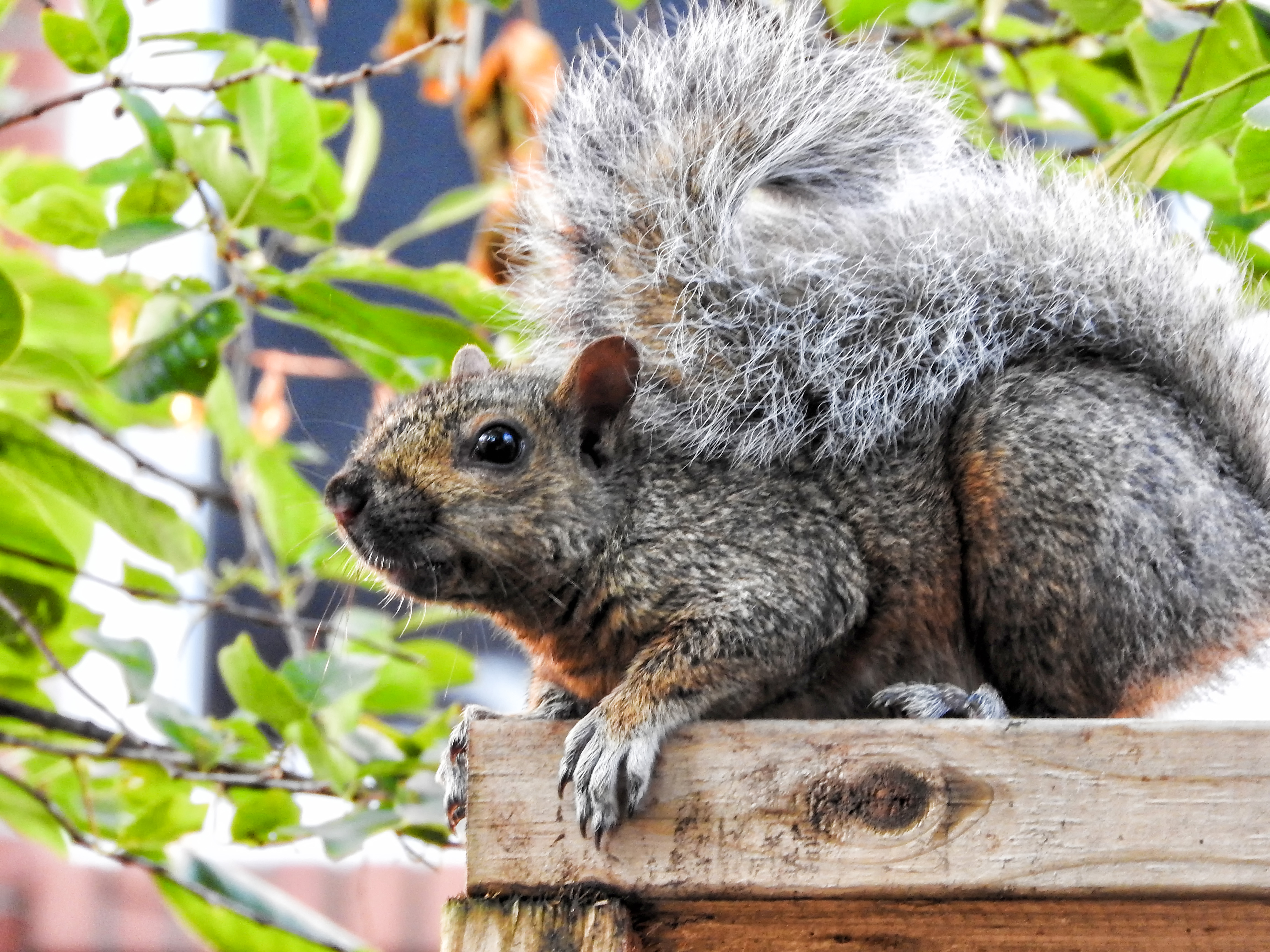 Eastern gray squirrel in Montréal